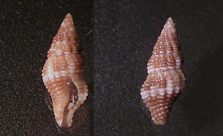 Engina menkeana (Dunker, 1860) , a true whelk from the family Buccinidae; Philippines